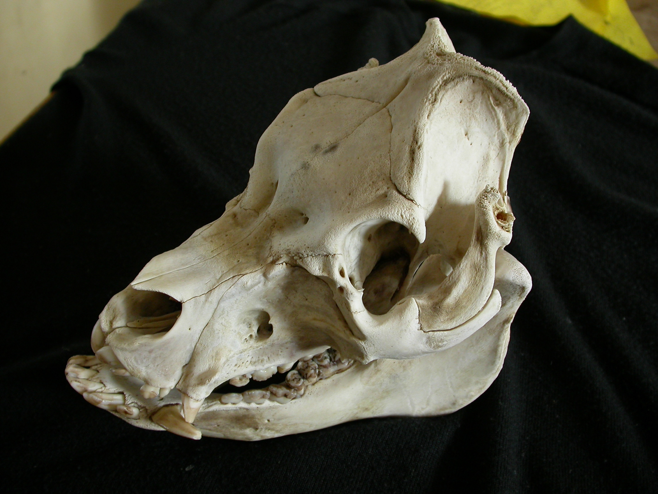 Domestic pig skull